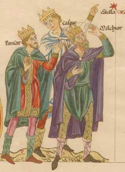 Herrad of Landsberg (c.1130 - July 25, 1195) was a 12th century Alsatian nun and abbess of Hohenburg Abbey in the Vosges mountains. She is known as the author of the pictorial encyclopedia Hortus deliciarum (The Garden of Delights). Herrad of Landsberg was born about 1130 at the castle of Landsberg, the seat of a noble Alsatian family. She entered the Hohenburg Abbey in the Vosges mountains, about fifteen miles from Strasbourg, at an early age. She became abbess there in 1167 and continued in that office until her death. These illustrations are from a reproduction by Christian Maurice Engelhardt, 1818. The original perished in the burning of the Library of Strasbourg during the siege of 1870 in the Franco-Prussian War. The text was copied and published by Straub and Keller, 1879-1899.